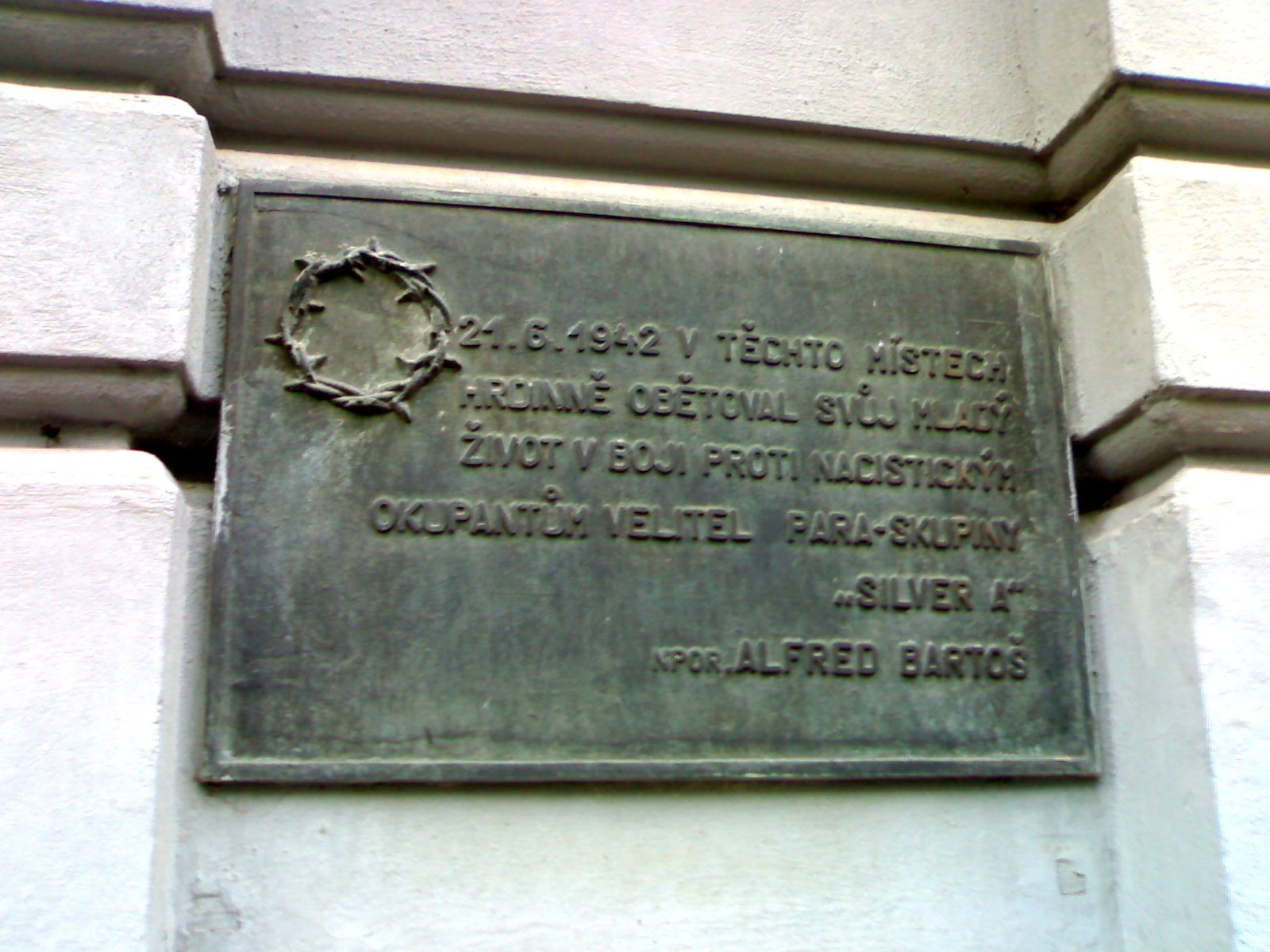 Memorial tablet on place in Pardubice town (Smilova street) where Alfréd Bartoš committed suicide during his pursuit by the Nazis on April 21, 1942